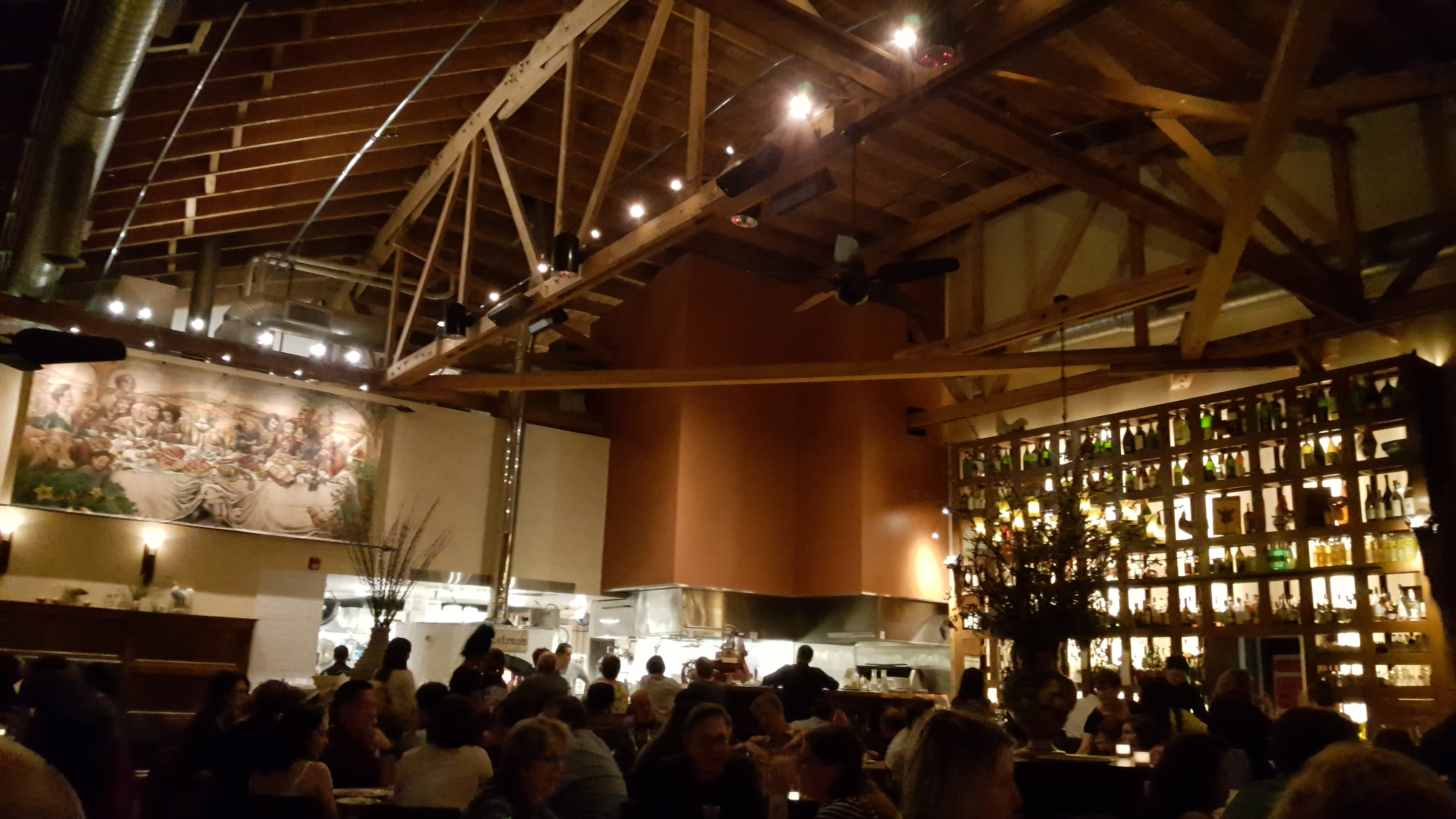 Nostrana, Portland, Oregon (2019)